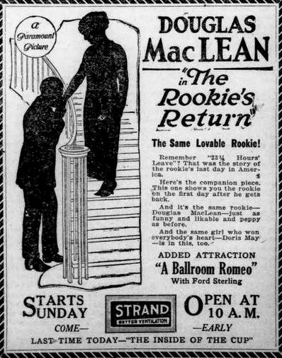 Newspaper advertisement for the American comedy film The Rookie's Return (1920), on page 13 of the April 2, 1921 Duluth Herald. The film was advertised as being a sequel to 23 1/2 Hours' Leave (1919).